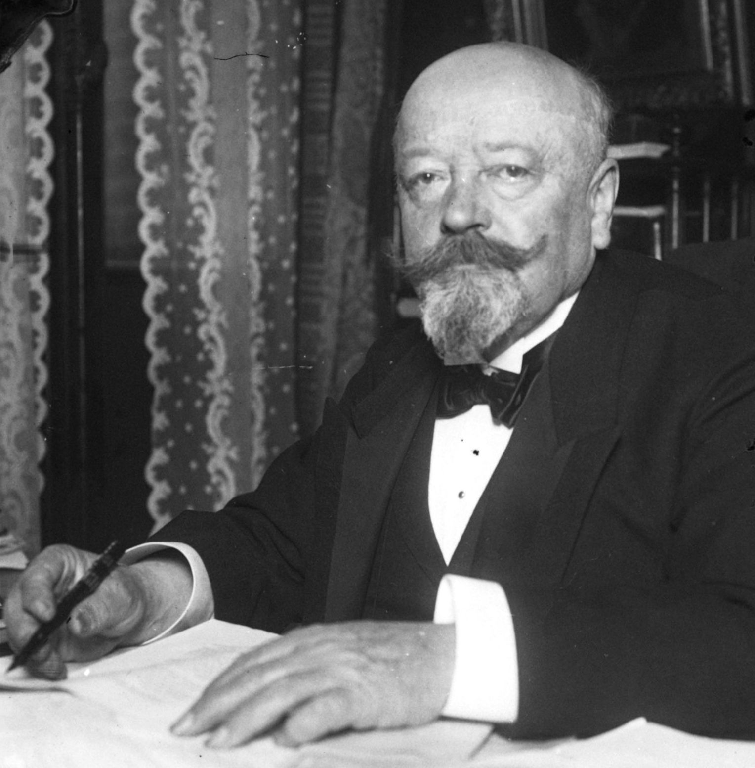 French politician Henry Boucher (1847-1927).